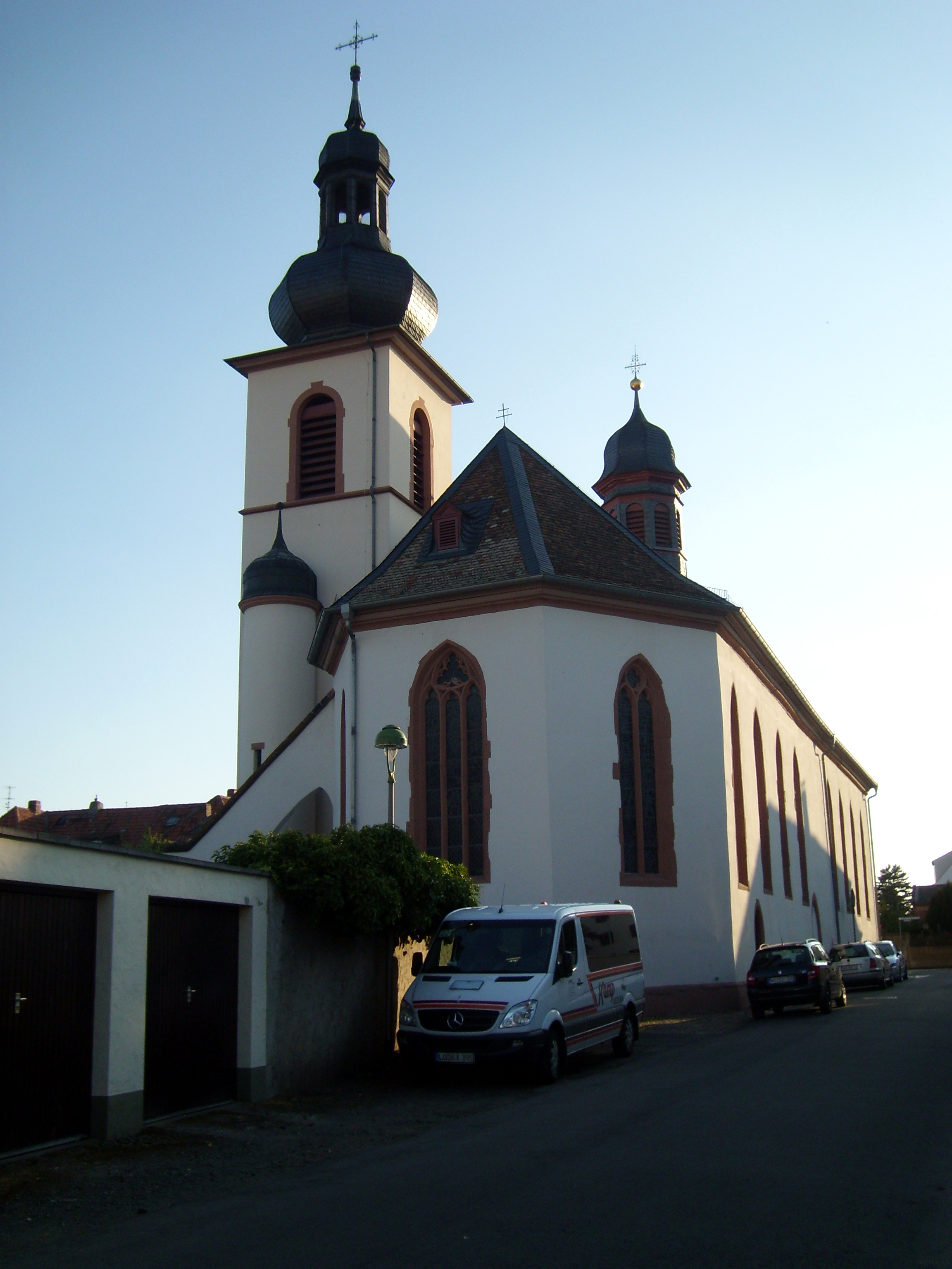 Catholic parish church "St. Maria Himmelskron" in Worms-Hochheim, founded in 1299